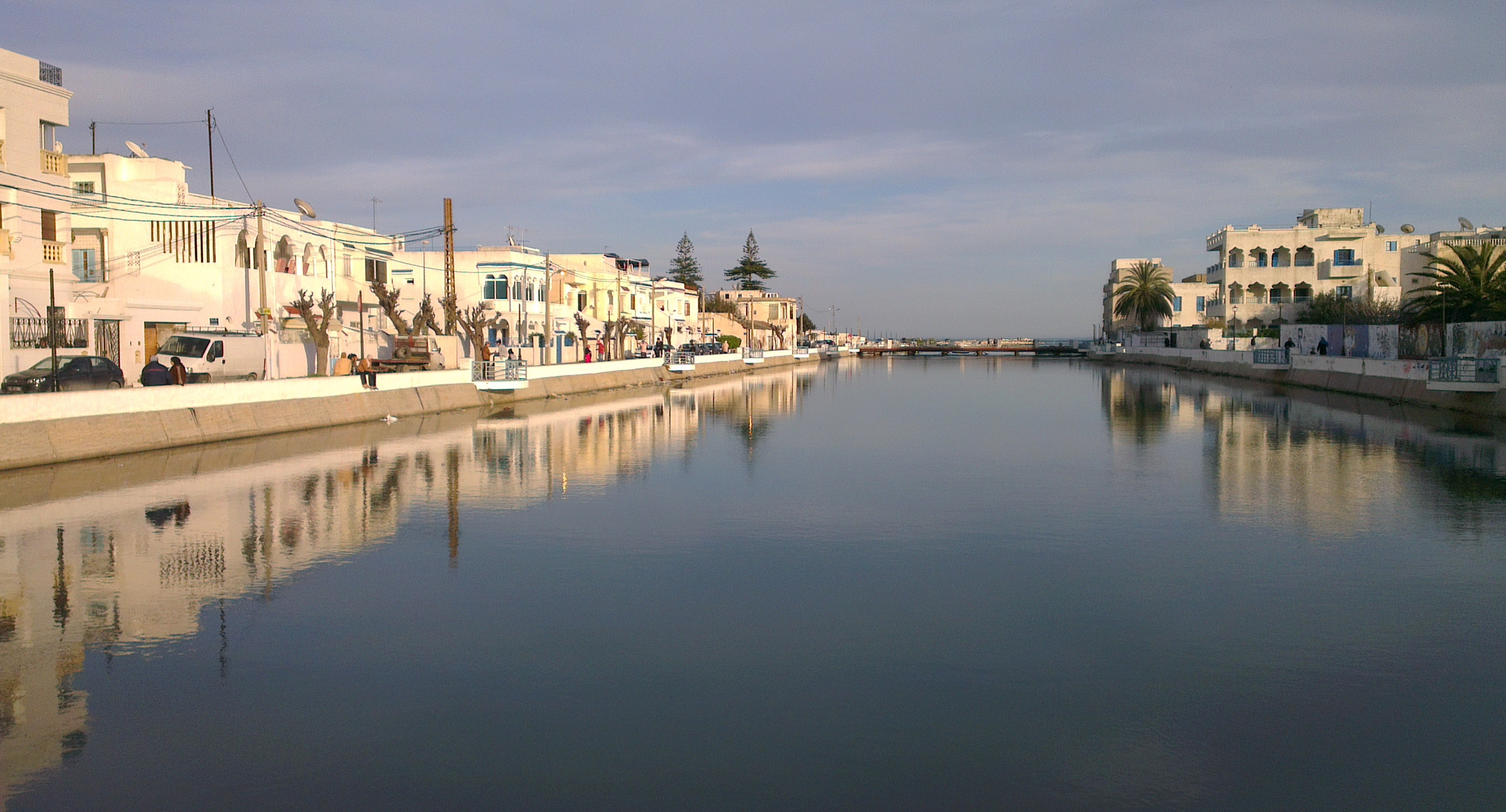 View from Avenue Habib Bourghuiba in La Goulette, Tunis of the canal connecting Lake of Tunis and Gulf of Tunis